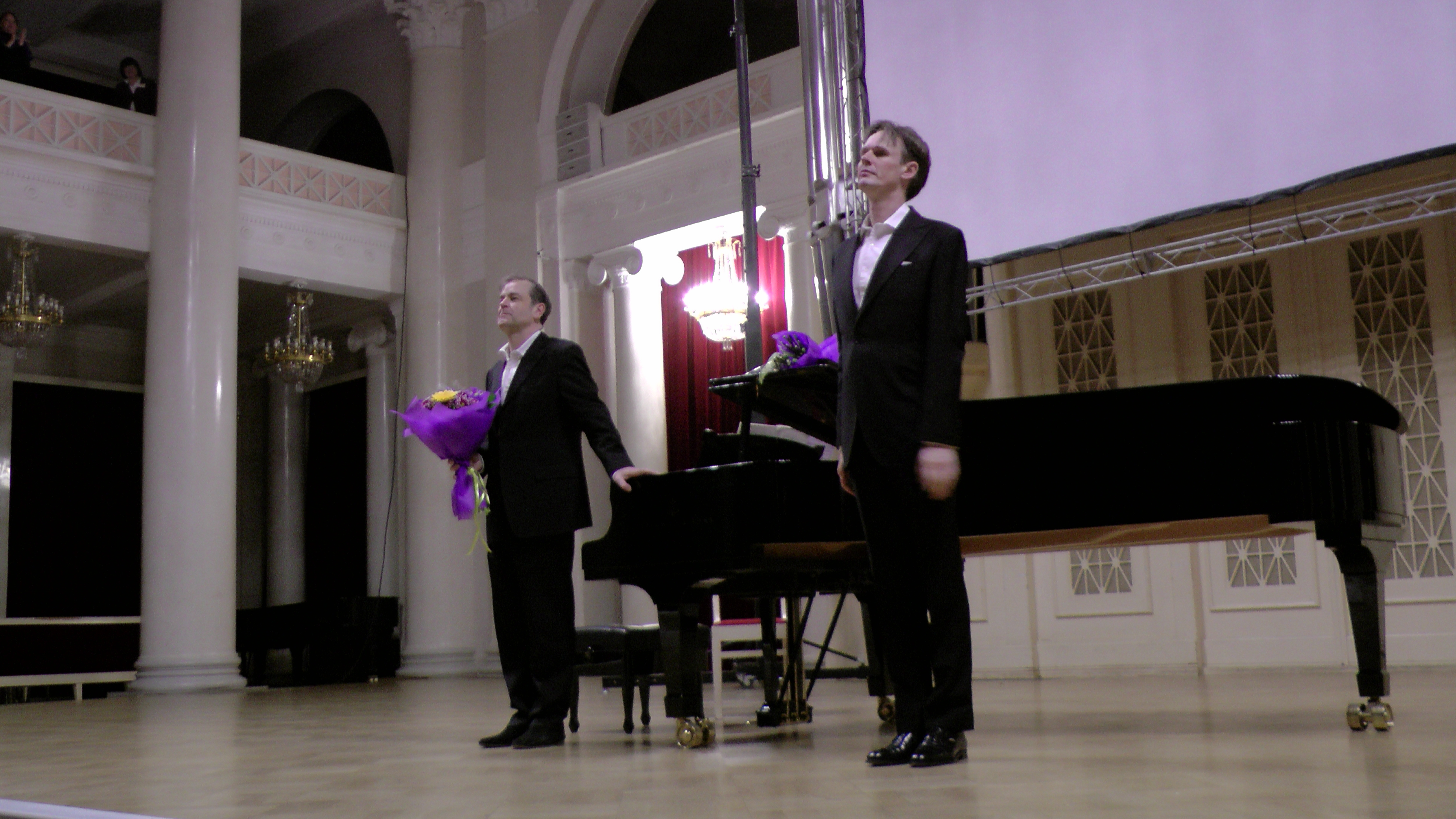 Julius Drake and Ian Bostridge in the Grand Hall of the Saint-Petersburg Philharmonia, December 21, 2014.